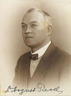 Ágoston Pável (1886-1946) Slovene writer, poet, journalist, teacher, ethnolog, museolog